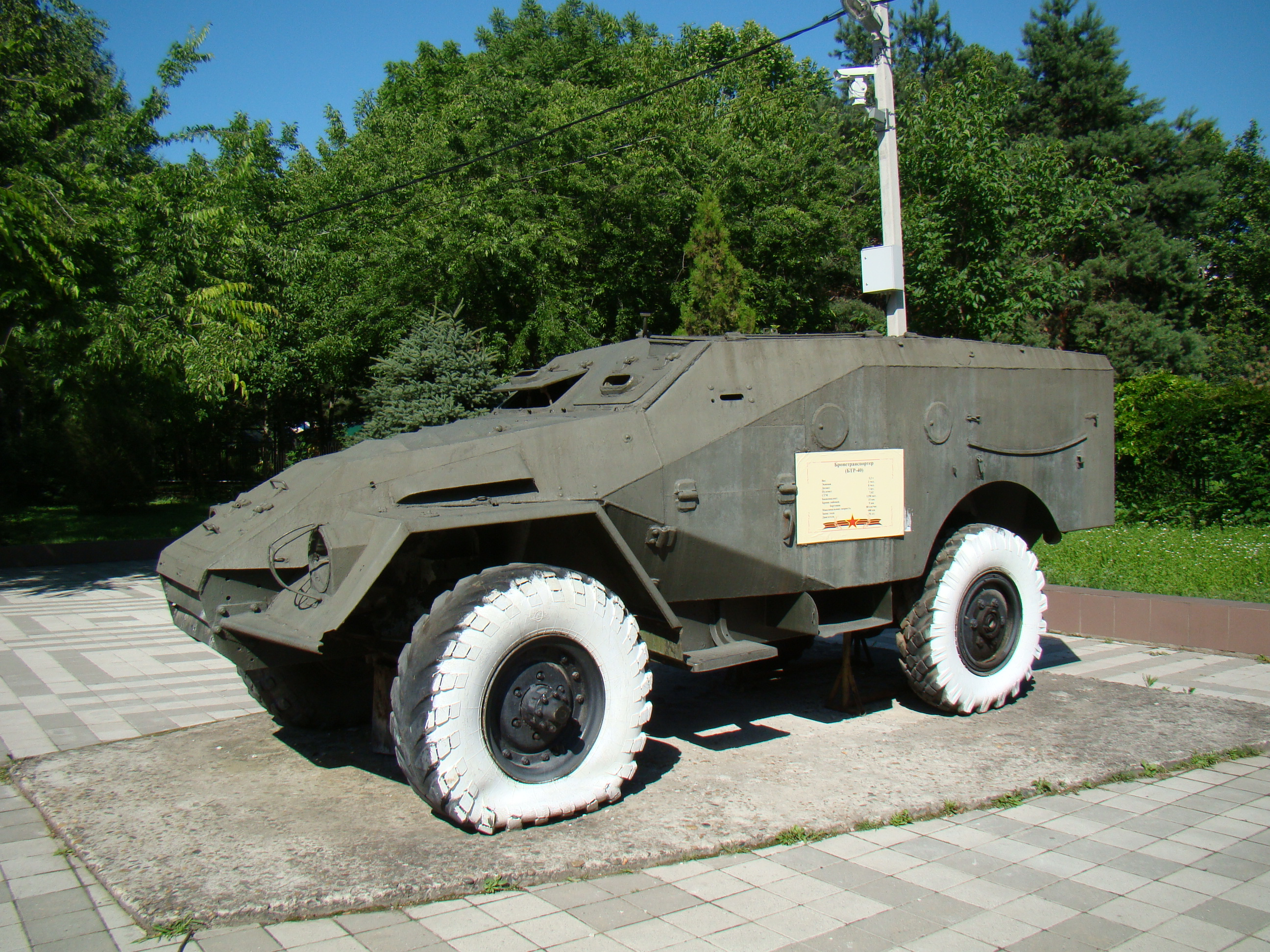 Музей военной техники "Оружие Победы". Парк культуры и отдыха имени 30-летия Победы, Краснодар. This file contains images of museum objects that are included in the Museum fund of the Russian Federation, or images of Russian museums buildings and symbols The Russian Museum Law, article 36, restricts anyone from: using images of museum objects and collections; buildings, museums and sites on museum grounds; and the names and symbols of museums; — on replicated products and consumer goods without authorization by the museum in question. English | русский | +/−